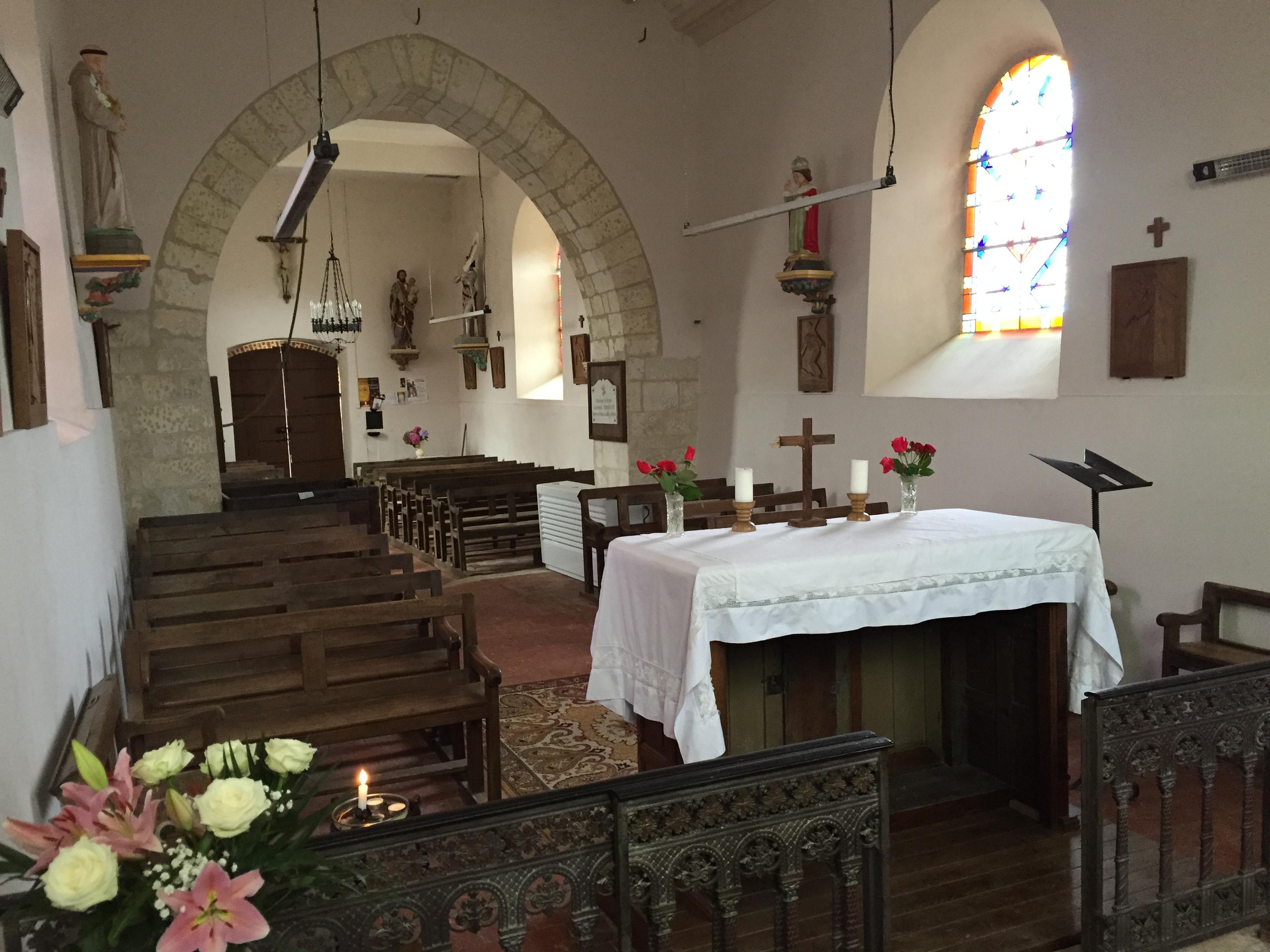 Berlancourt (Aisne) église, intérieur